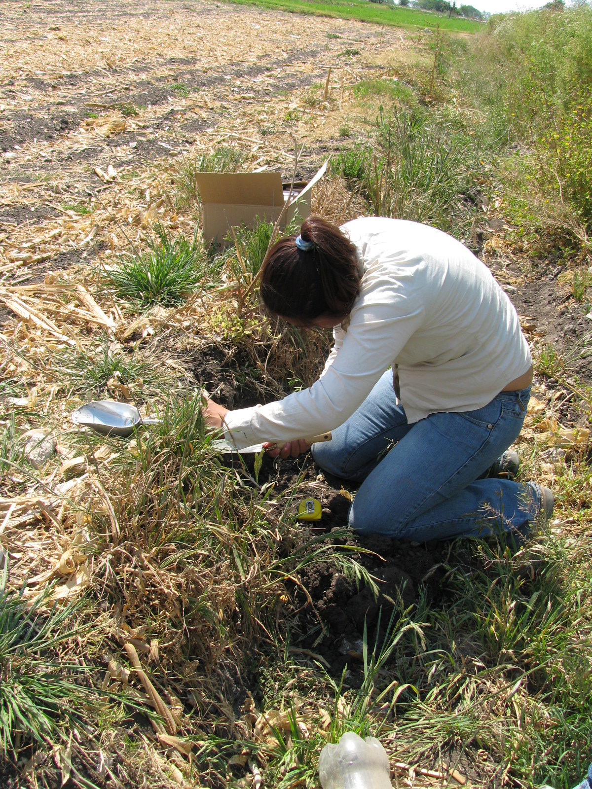 Samples of soil irrigated that has been irrigated with wastewater for 85 years, the samples are taken in order to analyze for helminth eggs.